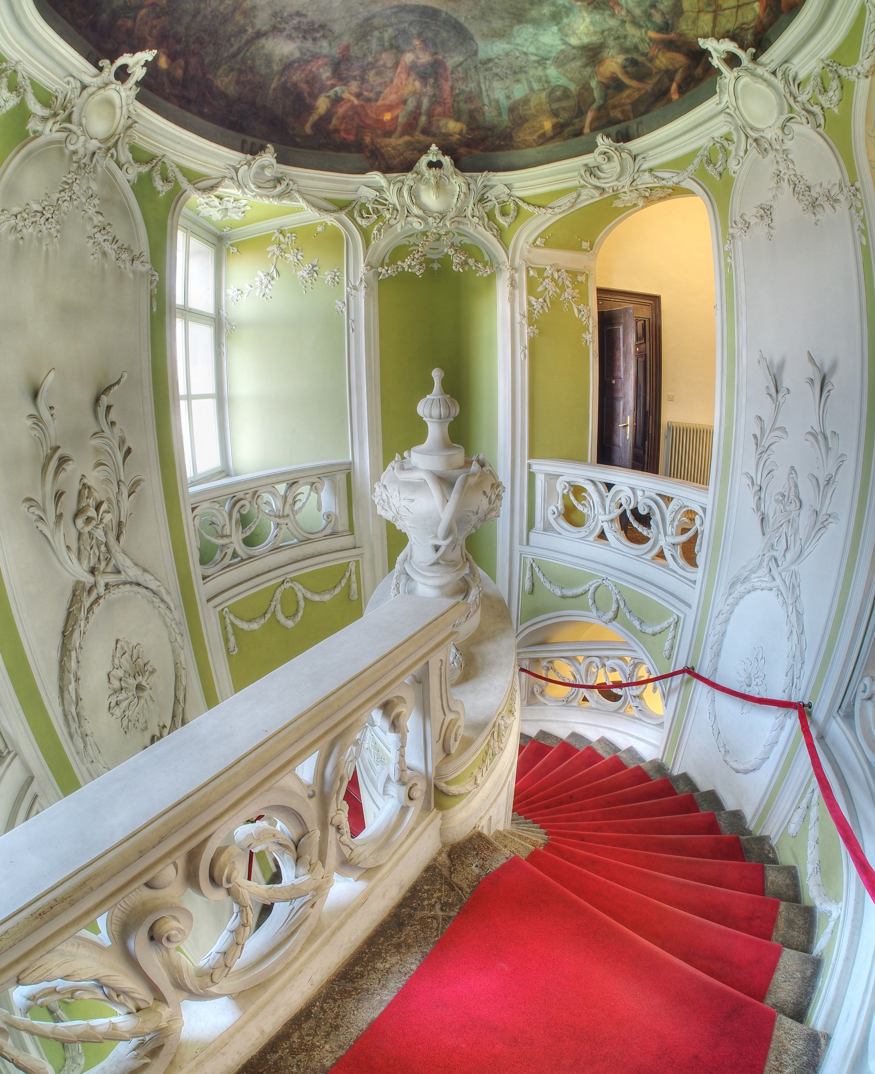 Rococo staicase in Gruber Mansion (Ljubljana, Slovenia).